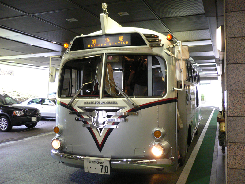 Disney Resort Cruiser (Tokyo Disney Resort Bus)